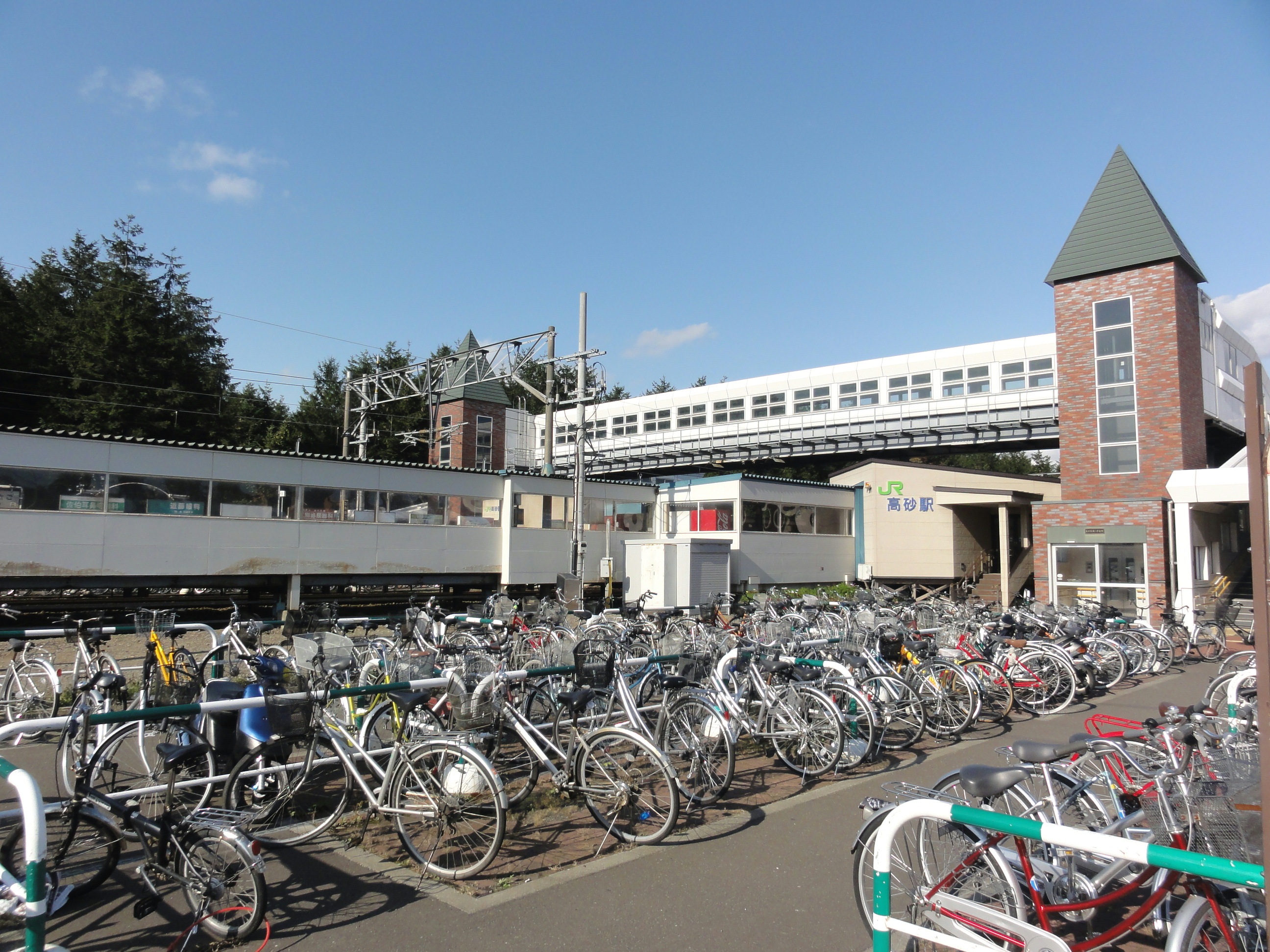 Takasago Station on the Hakodate Main Line (Ebetsu, Hokkaidō